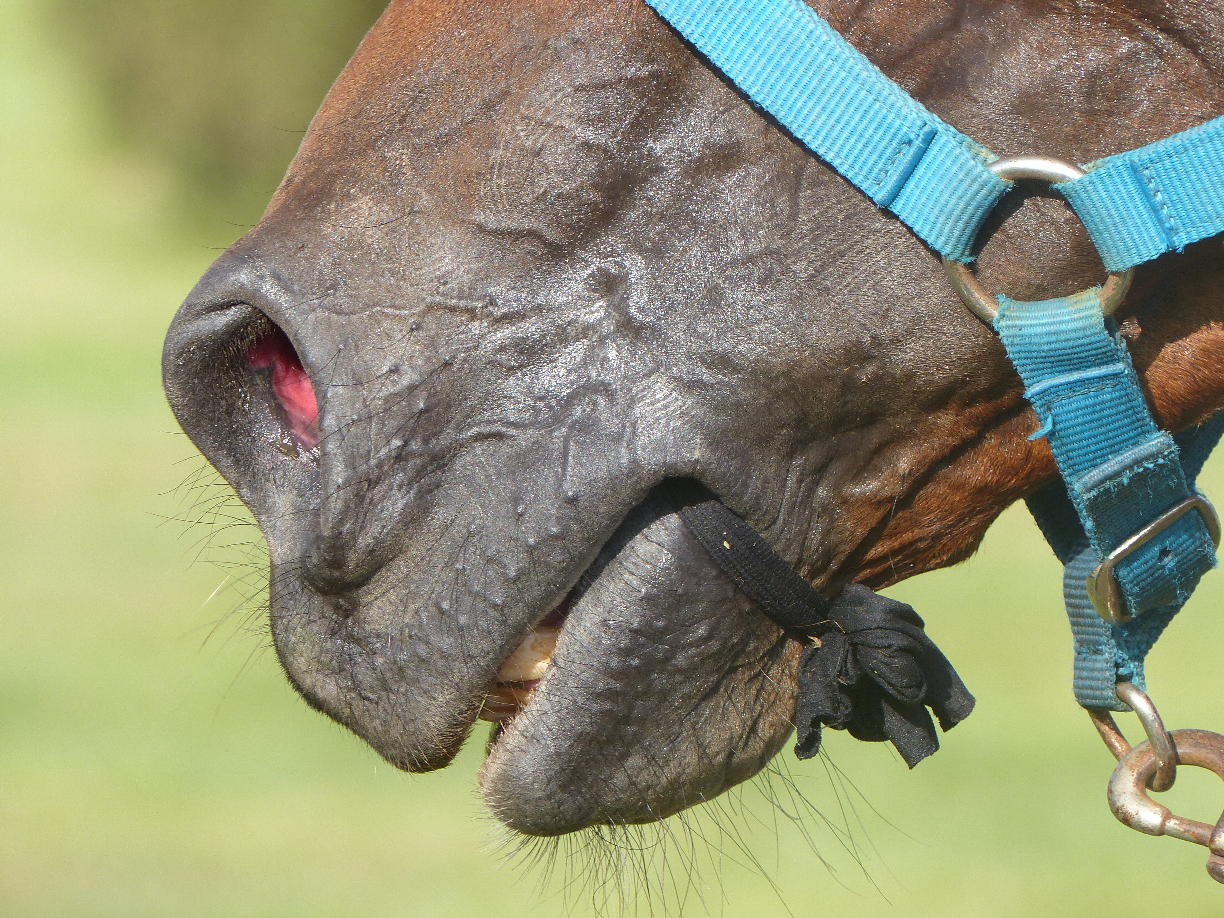 Tongue tie on a french Thoroughbred horse